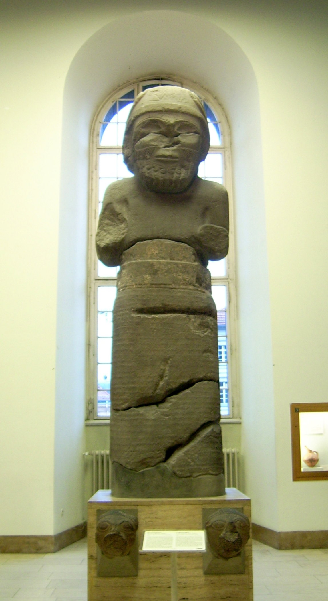 Discovered in 1890 in a village north east of Zinjirli. It is inscribed on the base of a statue of the god Hadad. The sculpture style is of a type that has Hittite precedents. It is a long inscription of some 34 lines, but many of them are badly worn having been exposed to the elements. More info.